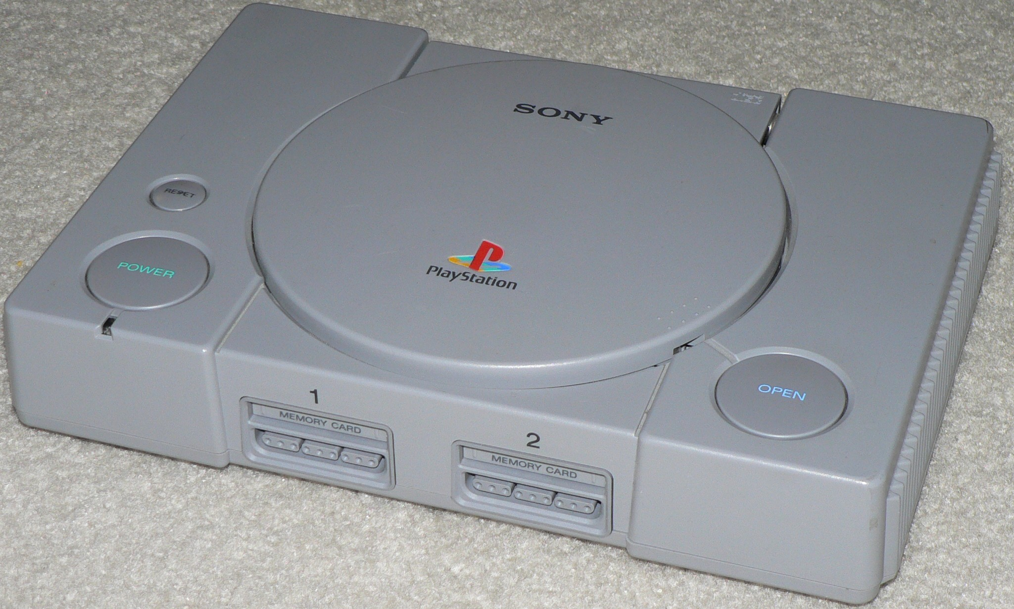 I took this photo in an attempt to replace the fair use photo on the en Wiki. Although, it appears that there is already one such replacement available